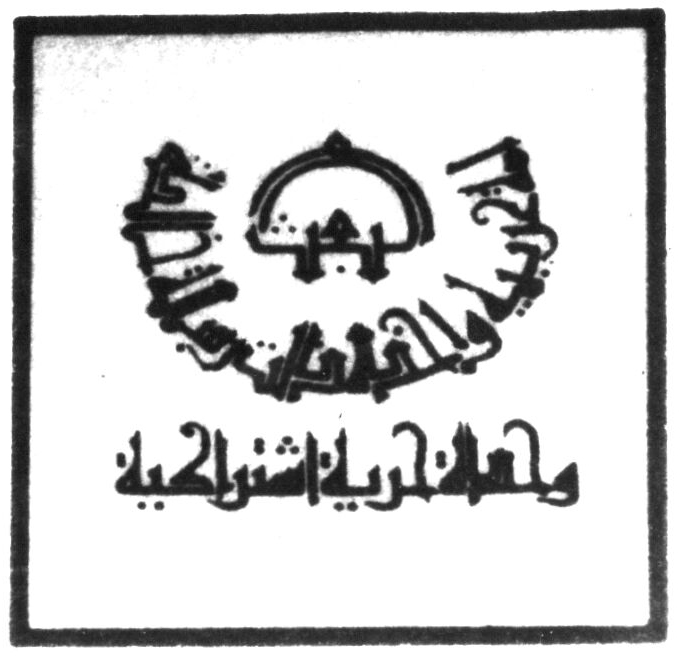 Detail of Baath Party Logo (as seen on publications by Iraqi Ministry of Information between 1974 and 1987) with the party slogan "Unity, Freedom, Socialism" (Unity, Liberty, Socialism)